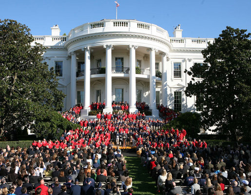 President George W. Bush speaks to members of the 2008 United States Summer Olympic and Paralympic Teams Tuesday, Oct. 7, 2008, on the South Lawn of the White House.